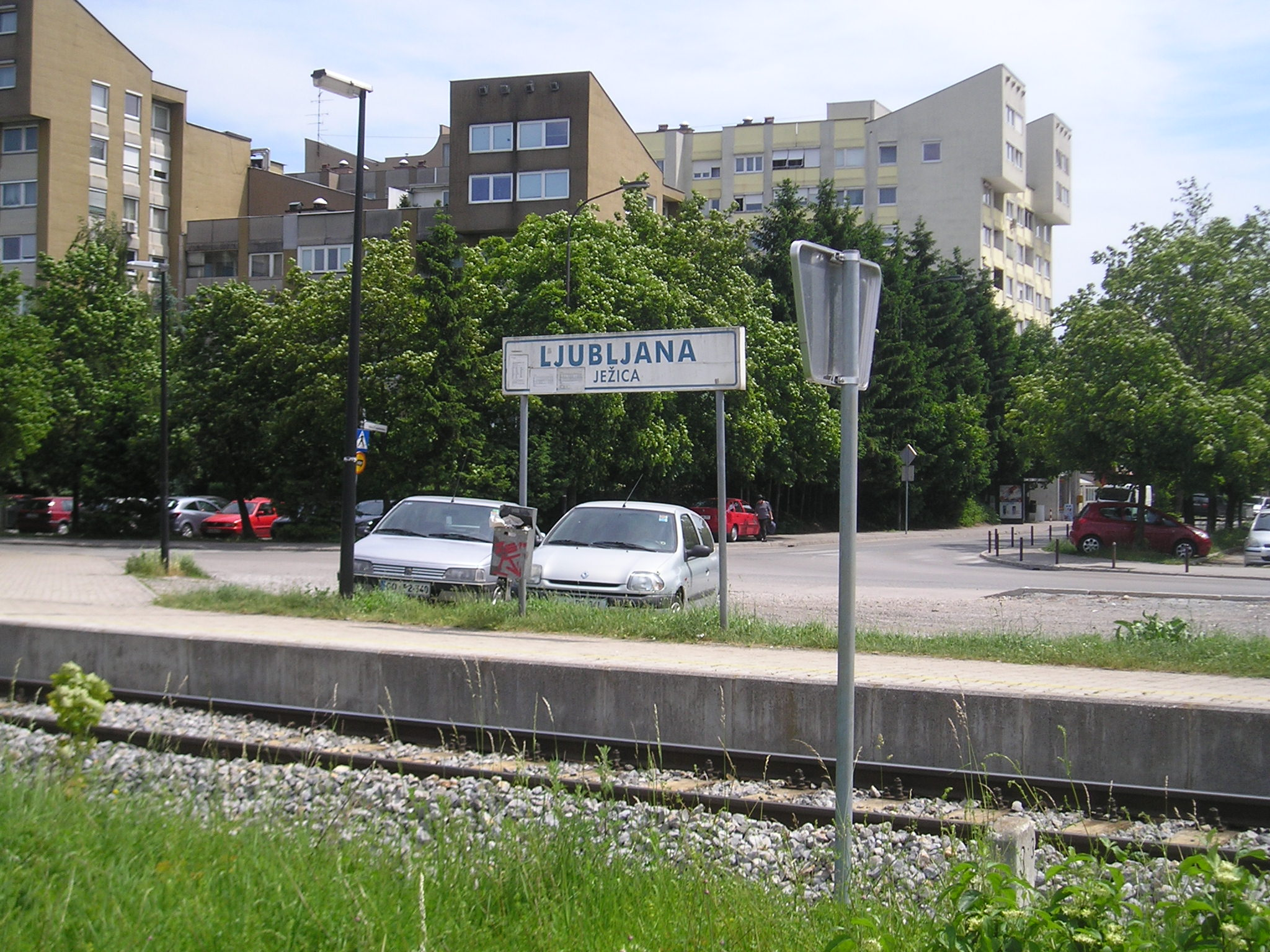 Railway halt Ljubljana Ježica (formerly also Bratovševa ploščad), located in Ljubljana's northern suburb of Ježica